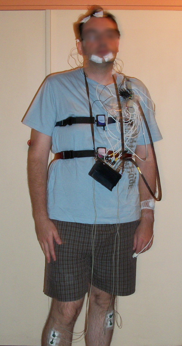 Patient equipped for a sleep apenea diagnosis (polysomnography), ambulatory diagnosis (sleeping at home).